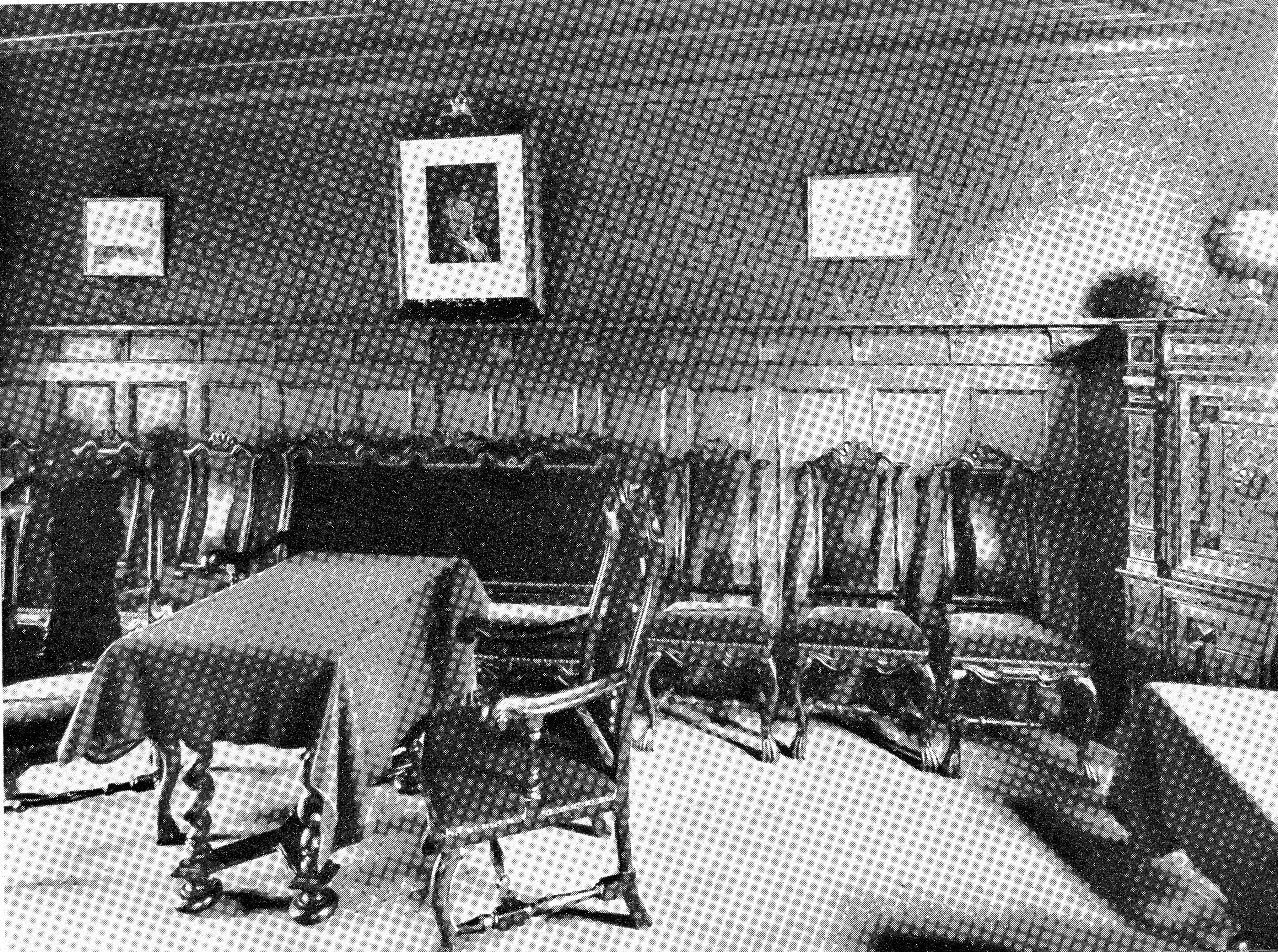 Kalmar Nation, Uppsala. First house 1913-1957. The hall seen from the Reading Room. Furniture given from queen Victoria 1915.